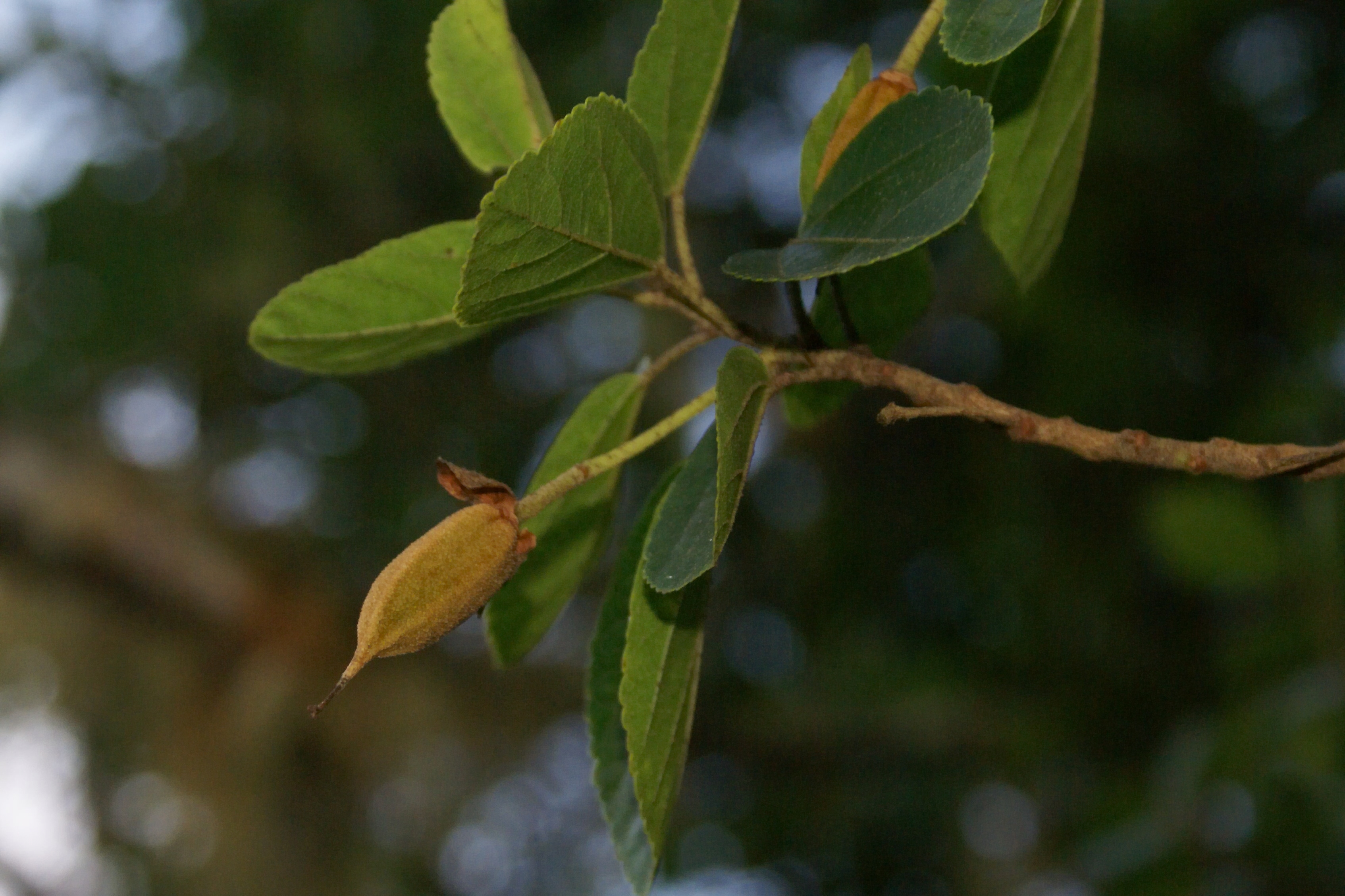 Fruit of Trochetia granulata, a species endemic to Réunion island